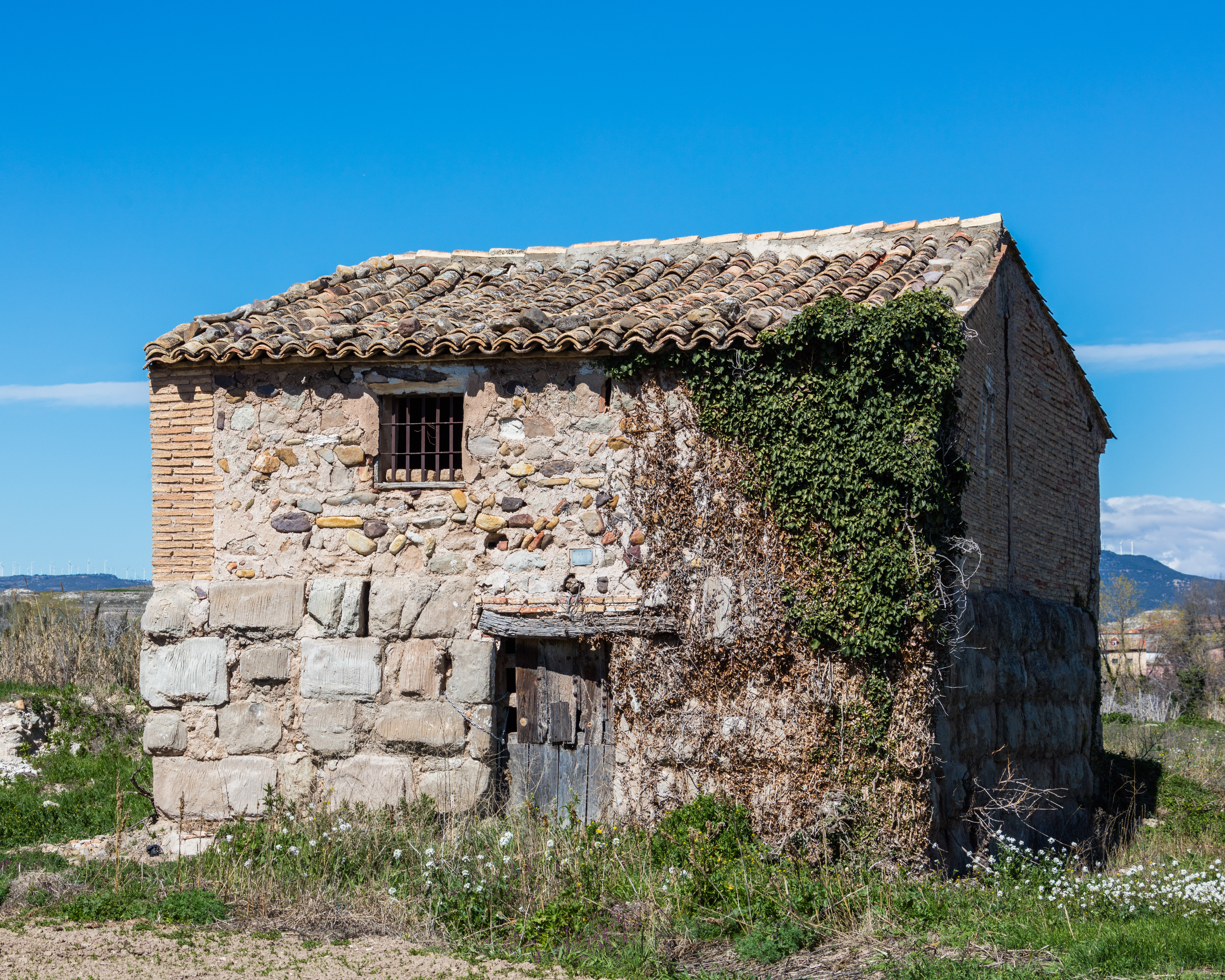 Roman tower, Magallón, Zaragoza, Spain